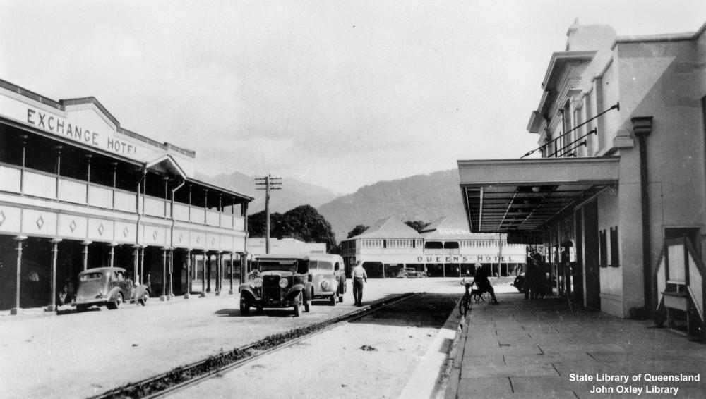 Cars travelling along Mill Street, Mossman, 1940. Looking west along Mill Street, Mossman, towards the Queen's Hotel, 8 November 1940. The Exchange Hotel can be seen at the left of the image. Railway lines run down the centre of the street, for sugar trams transporting cut cane to the sugar mill.